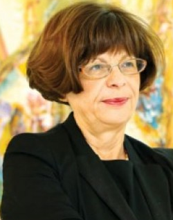 Katica Kjulavkova, poet and writer from Macedonia